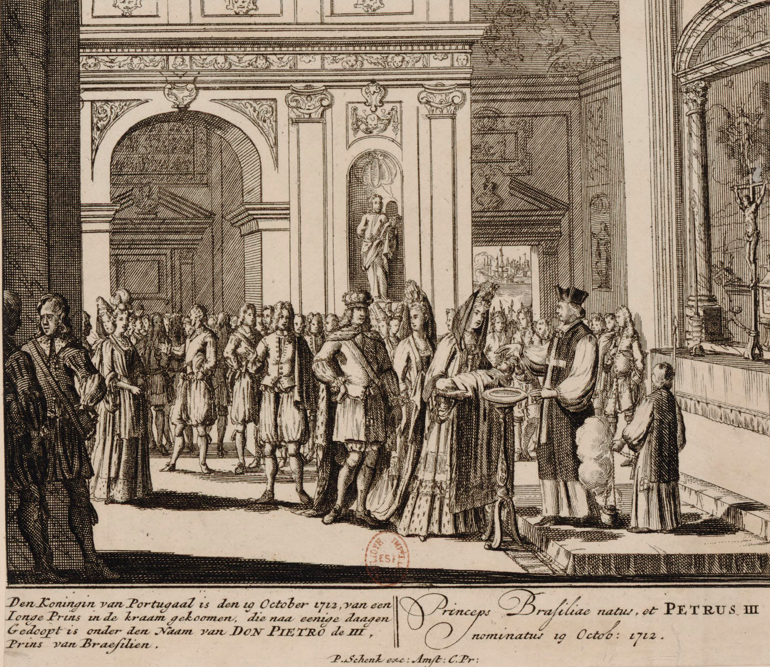 Baptism of the Portuguese prince called Peter III, Prince of Brazil.